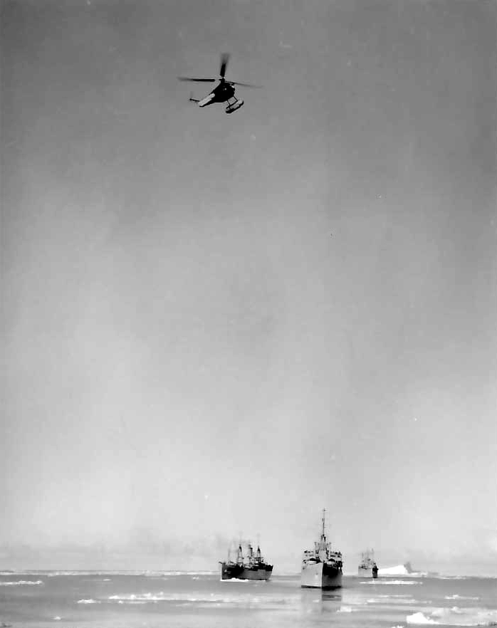 The U.S. Coast Gaurd Sikorsky HNS-1 helicopter fyling over the U.S. Navy Task Group 68.2 in Antarctic waters during Operation Highjump. The ships in background are the command ship USS Mount Olympus (AGC-8) and the attack transports USS Yancey (AKA-93) and USS Merrick (AKA-97).